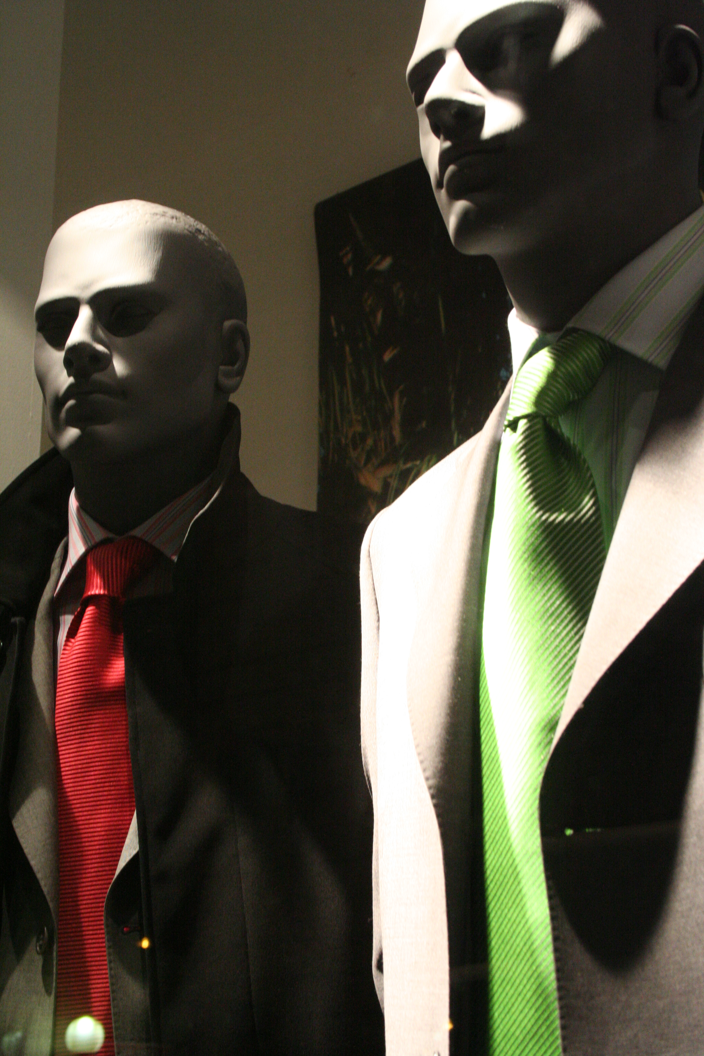 Red and green Tie